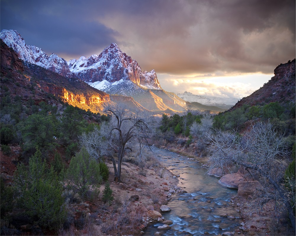 Zion Canyon, just after a winter snowstorm.